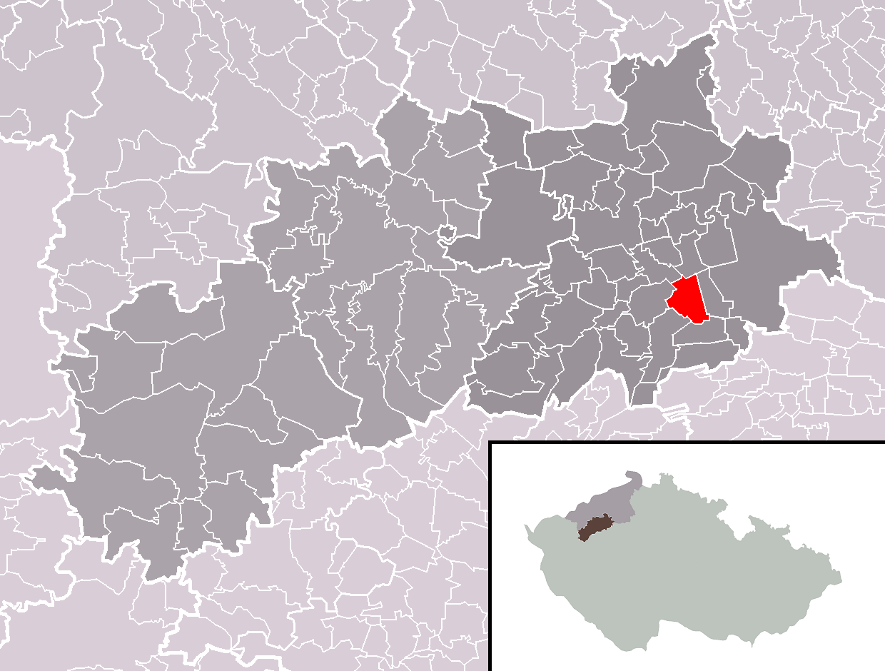 Location of Toužetín municipality within Louny District and administrative area of Louny as a Municipality with Extended Competence.